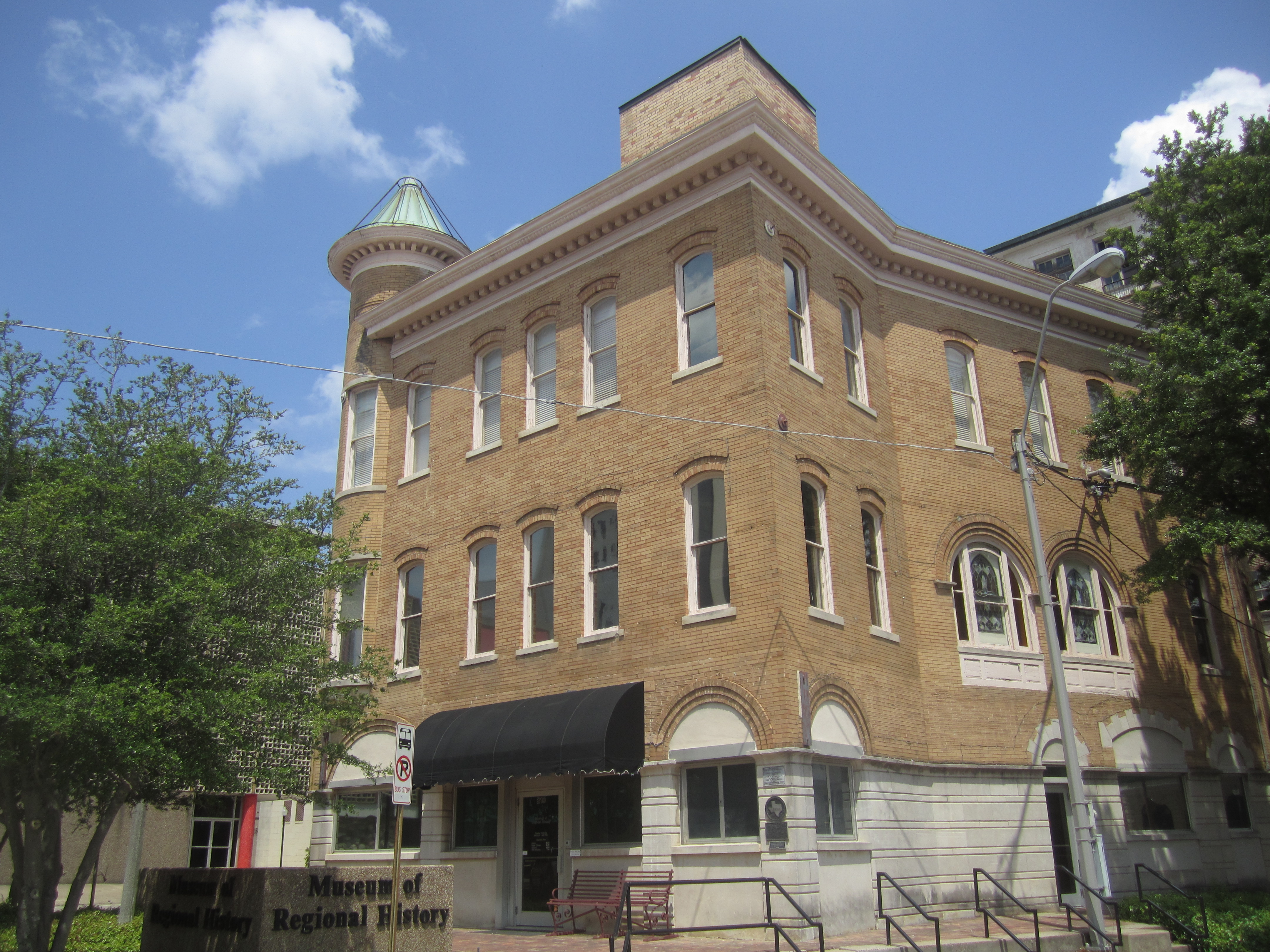 I took photo with Canon camera on June 9, 2012, in Texarkana of Museum of Regional History.Billy Hathorn (talk) 03:31, 28 June 2012 (UTC)